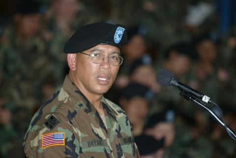 US Army 4ID Public Affairs-released wide shot of BG Albert Bryant, Jr. during his farewell address to the 4th Infantry Division in Fort Hood, Texas. BG Bryant served as Assistant Division Commander of the 4ID, under GEN Raymond Odierno, during the 4ID's service in Iraq, a period which included the 4ID capture of Saddam Hussein and the misconduct investigation into then-4ID LTC, now Congressman, Allen West.